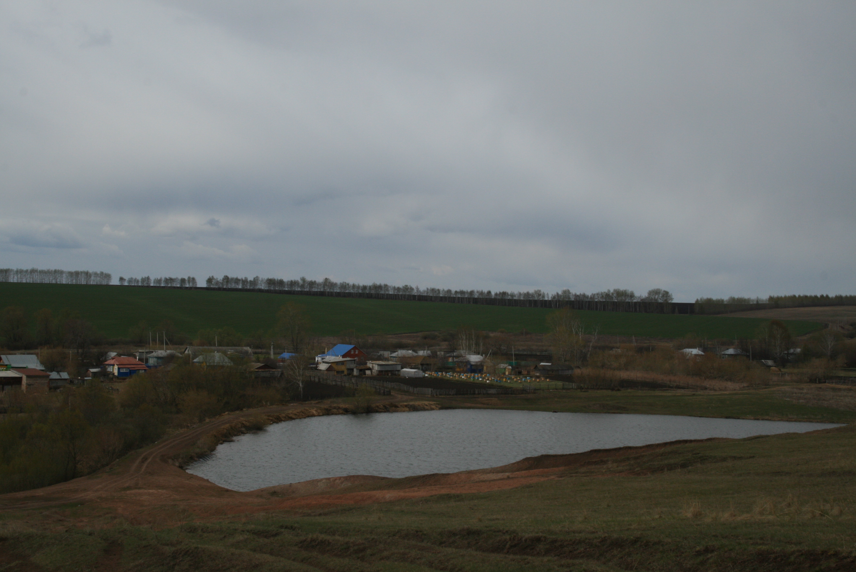 Pond near Bulgar village with crucians [2008]